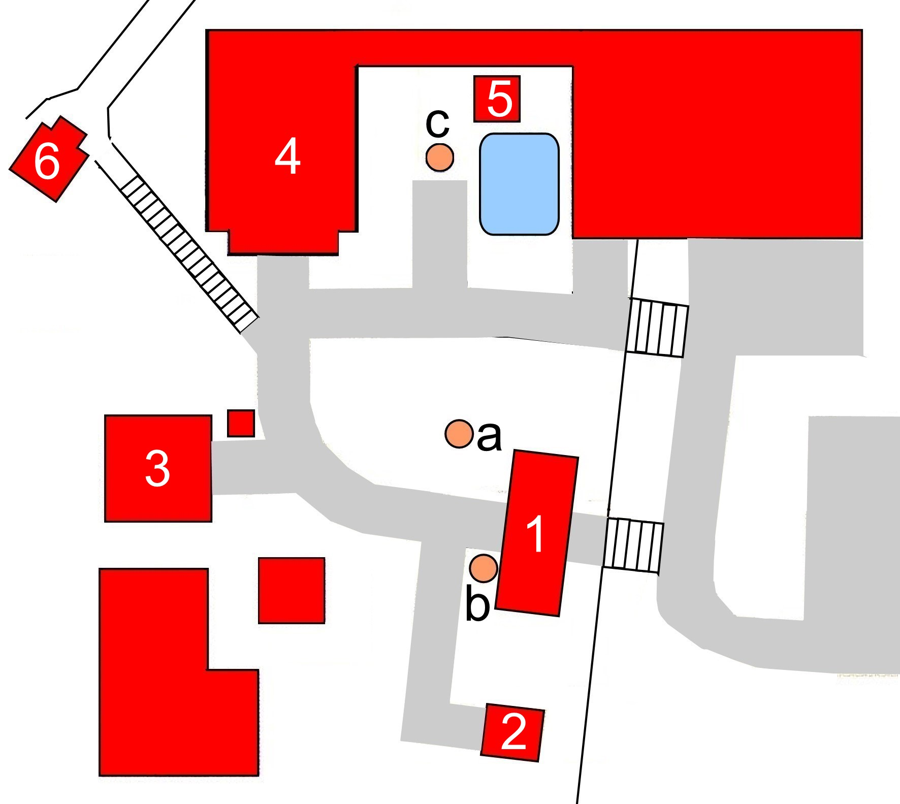 Layout of temple Enkô-ji, Prefecture Kôchi, Japan